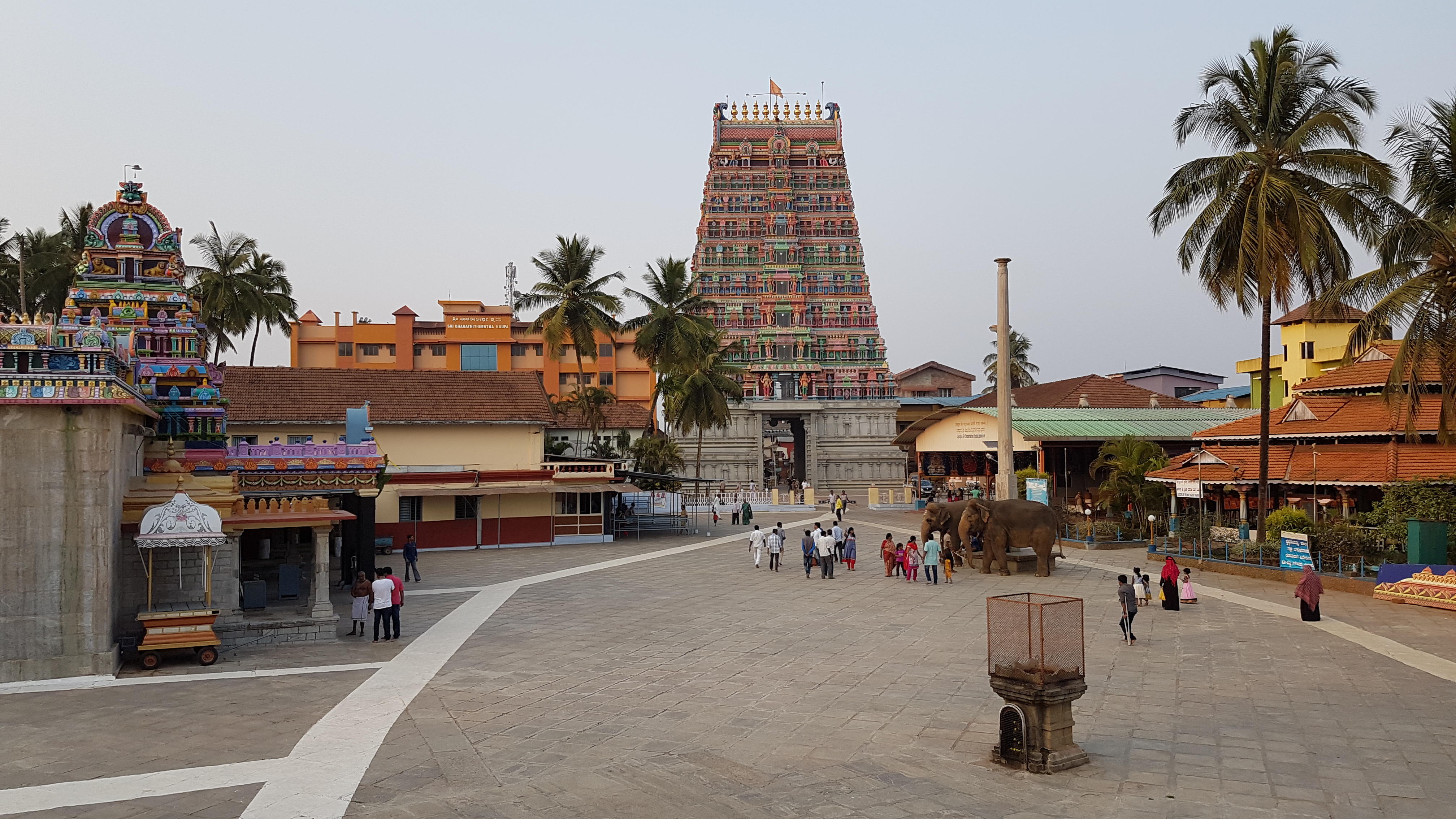 Photo of Sri Sharada temple and gopuram, taken from Sri Vidyashankar temple steps, 2017